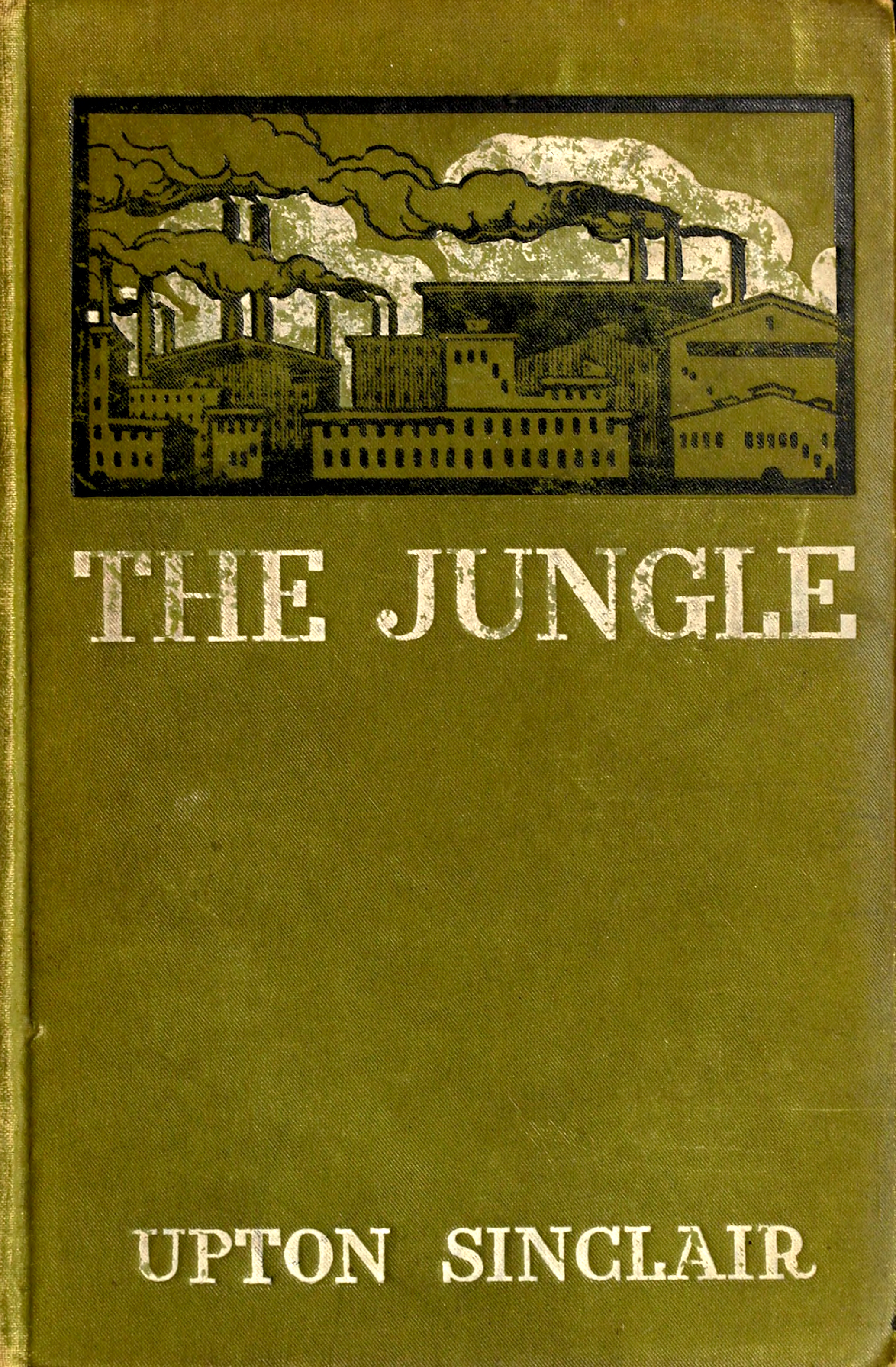 Front cover of The Jungle (1906), written by Upton Sinclair and published by Doubleday, Page & Company.